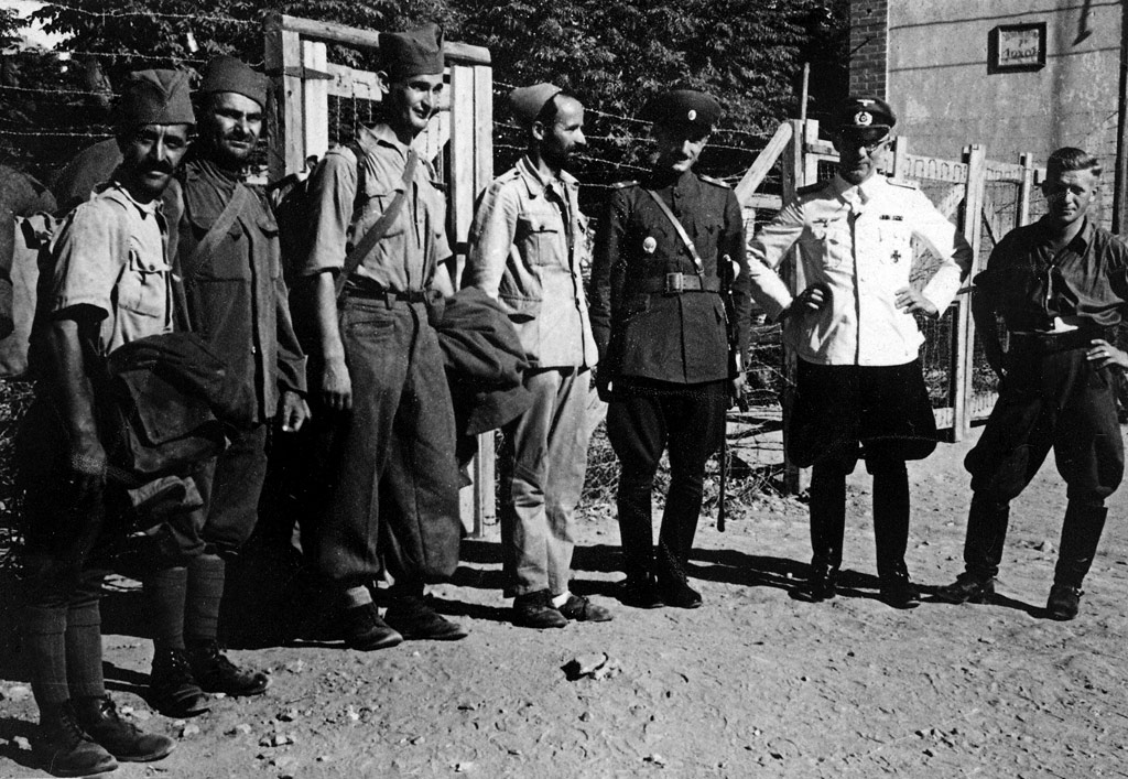 Professor Dimitar Yaranov (geographer and geologist, third right) - the head of a mission at the headquarters of the Wehrmacht in Thessaloniki, together with a German officer and Greek prisoners of war released because of their Bulgarian origin.